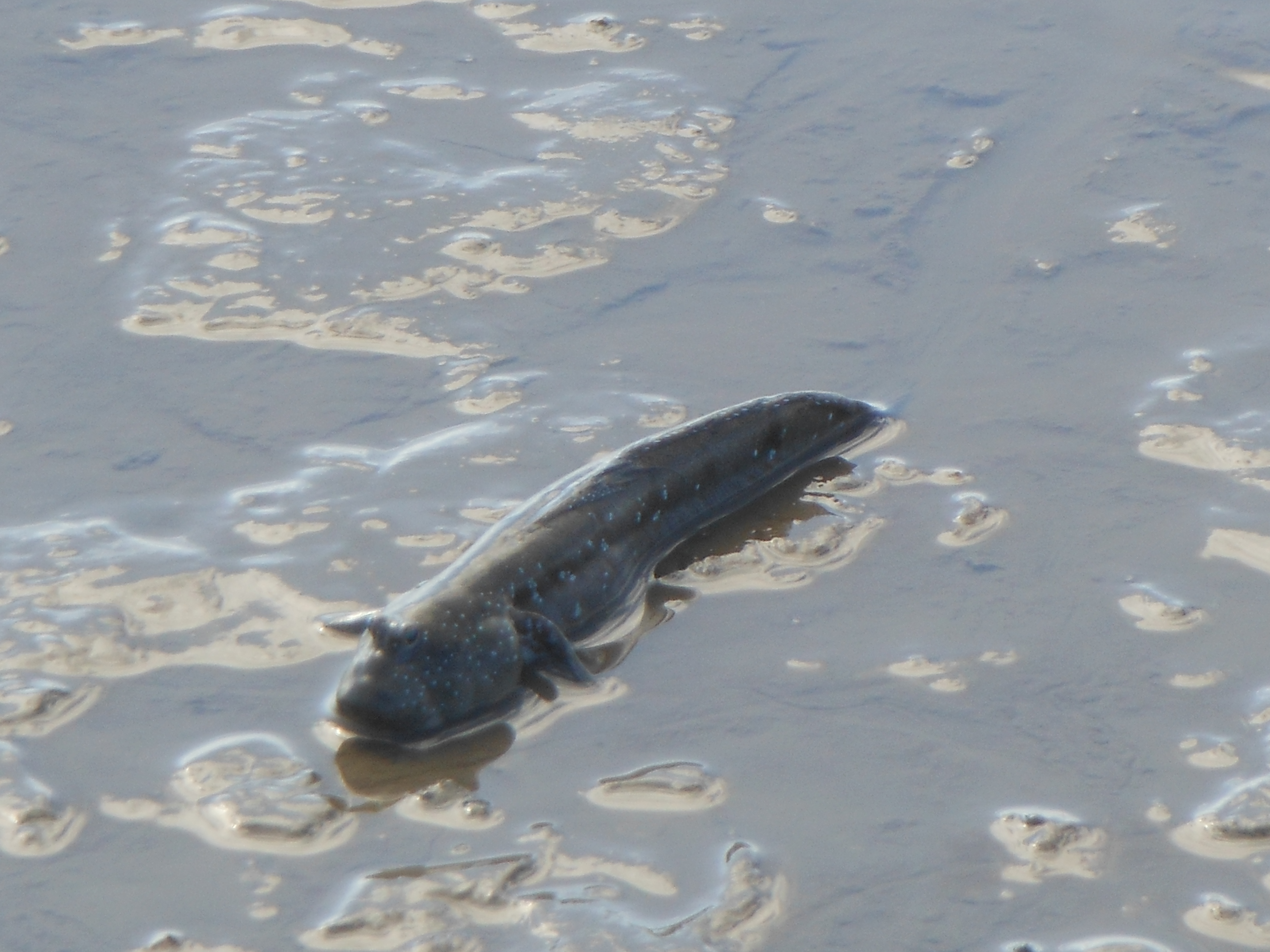 Boleophthalmus pectinirostris, in Higashiyoka coast, Saga city, Saga prefecture, Japan.